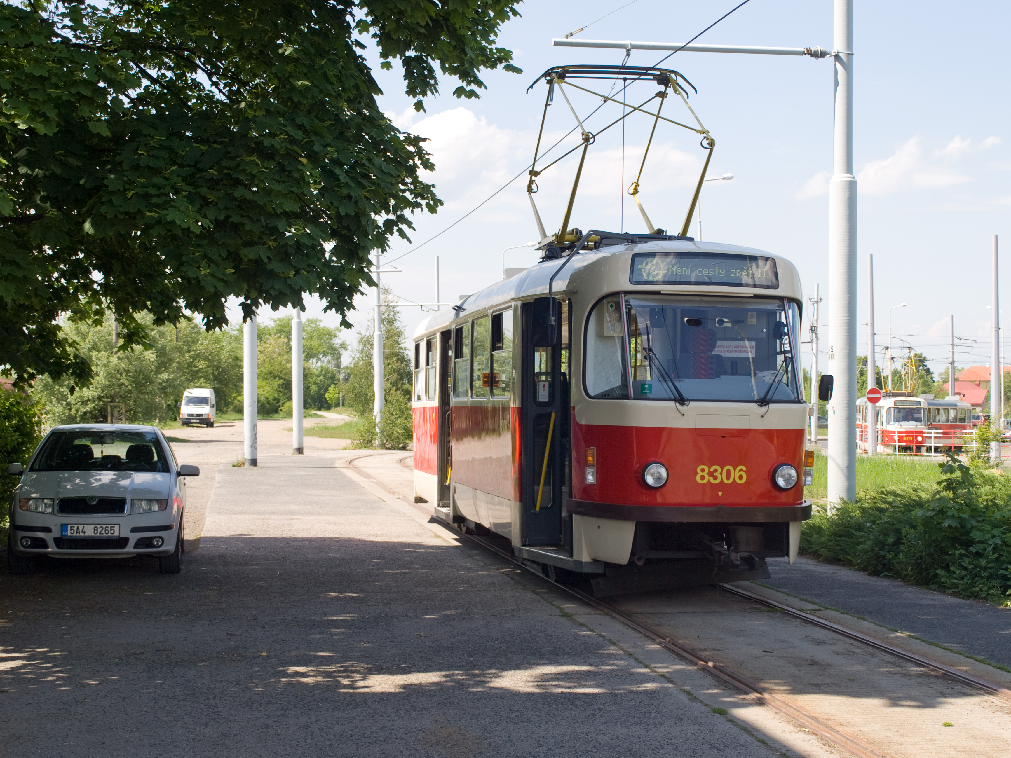 Second year of Není cesty zpět (No way back) action about accidents between trams and pedestrians, tram loop Sídliště Řepy